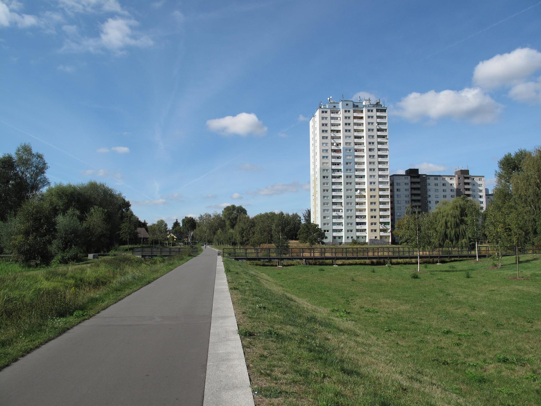 The Bullengraben (german for: bullditch) is a drainage channel to the river Havel in the localities Staaken, Wilhelmstadt and Spandau in the borough Berlin-Spandau, Germany. In 2007 there was opened the green space Bullengraben (german: „Grünzug Bullengraben“) along the 4,5 kilometre long ditch.